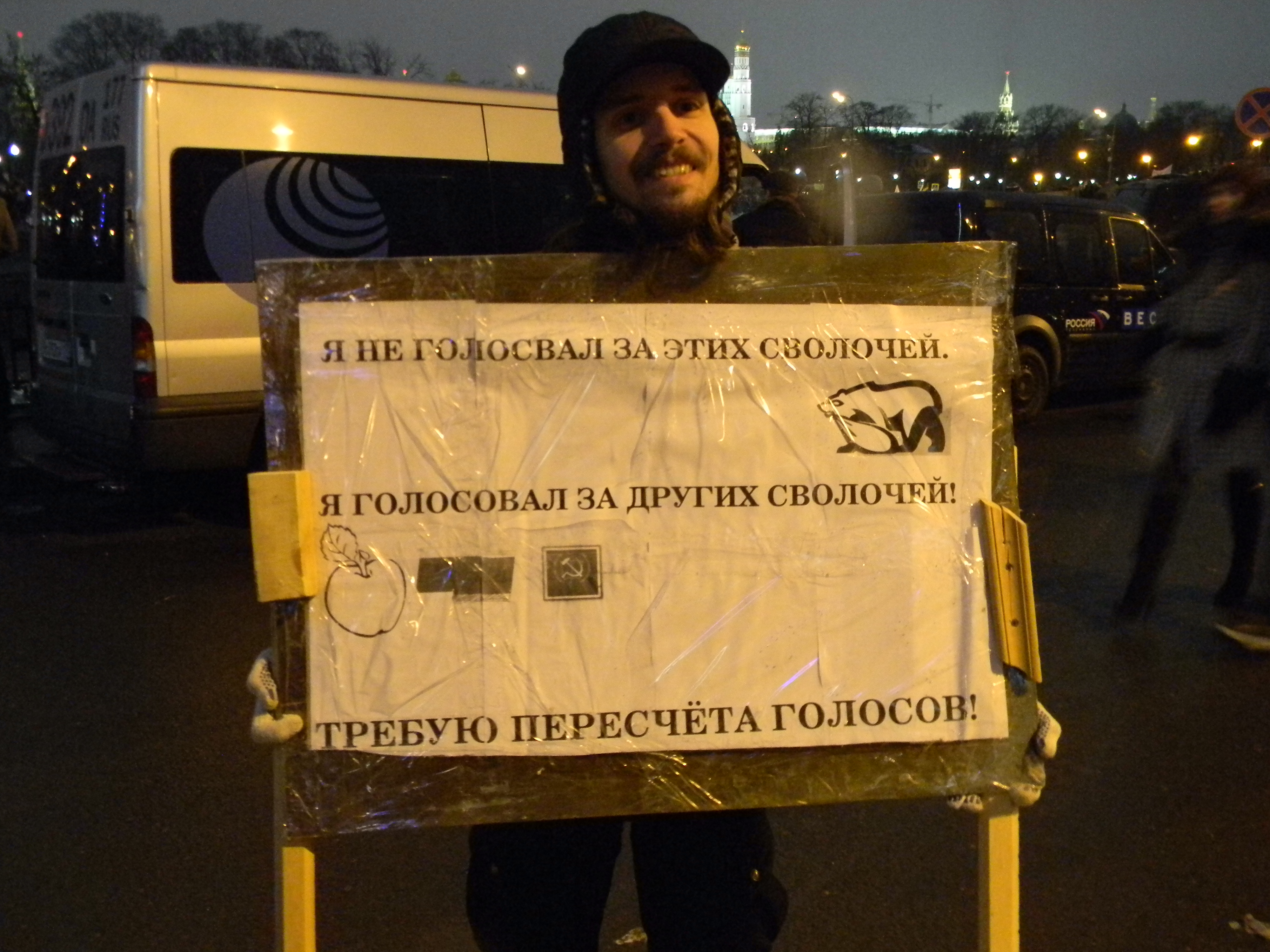 Protester during 2011 Russian protests holding a sign saying (in Russian), "I did not vote for these bastards (United Russia logo), I voted for other bastards (Yabloko, Spravedlivaya Rossiya, KPRF logos). Give me back my vote."